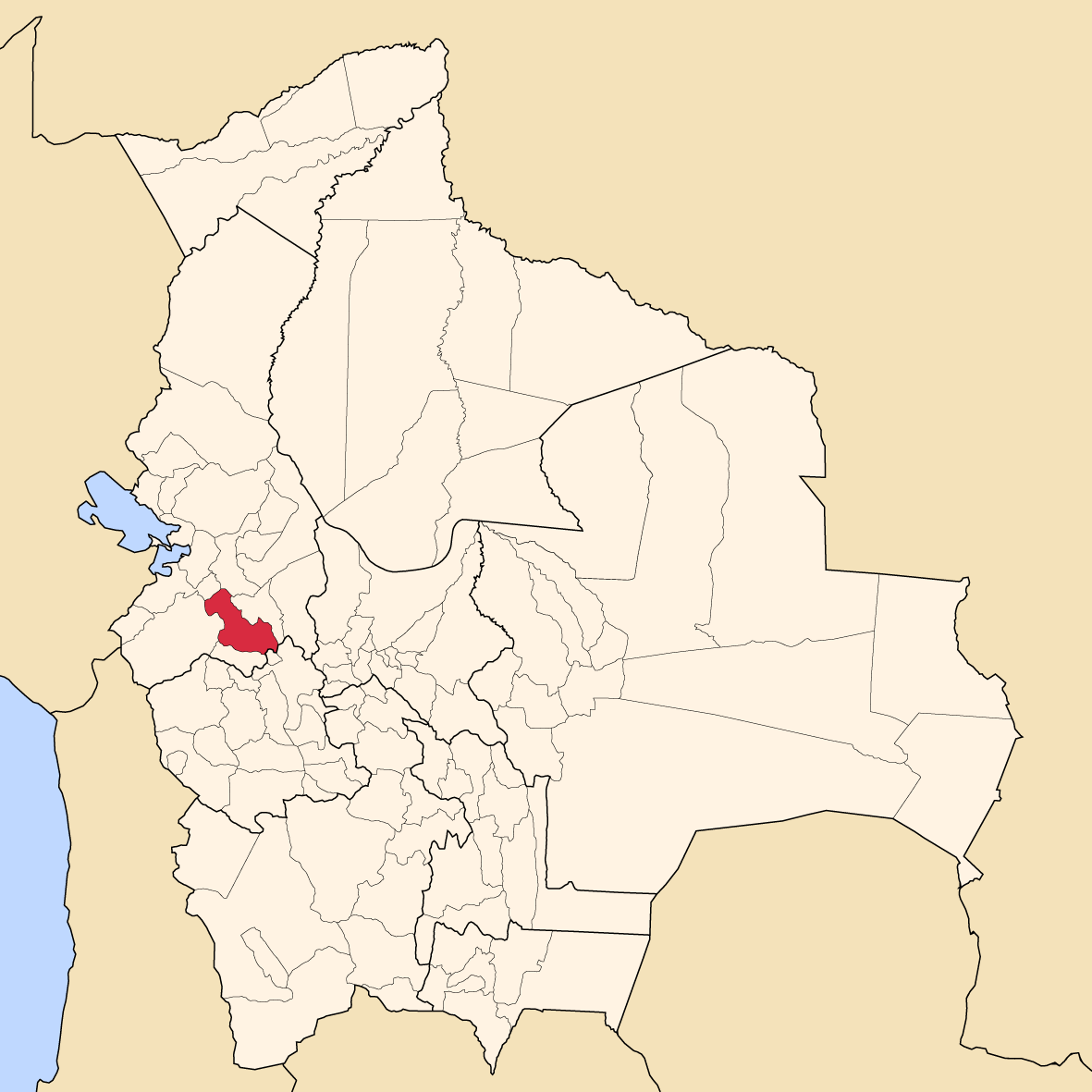 Map of Bolivia showing Aroma province, La Paz